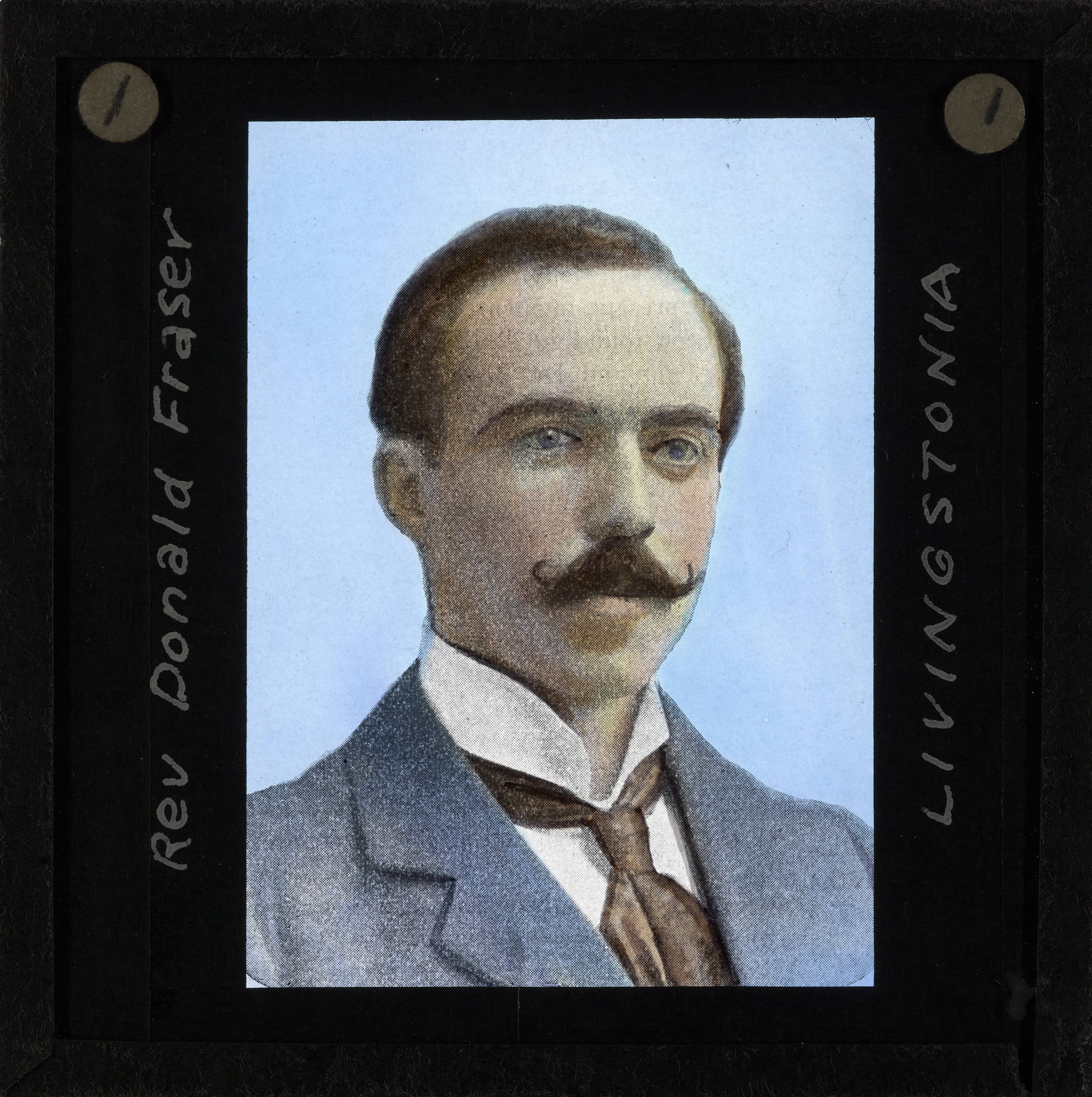 Rev Donald Fraser (1870-1933) Portrait image of Rev Donald Fraser the Scottish Missionary.; Rev Donald Fraser, the Scottish missionary, was born in Argyllshire, Scotland, the son of a Free Church minister. In his youth Rev Fraser helped found the Student Volunteer Movement in Britain and the World Student Christian Federation before beginning missionary service in Malawi with the Free Church of Scotland. He worked in Malawi from 1896 until he returned to Scotland in 1925. He was first posted to Ekwendeni and later Embangweni. Rev Fraser worked closely with the Ngoni people. Photographer: Unknown Filename: imp-cswc-GB-237-CSWC47-LS4-1-001.tif Coverage date: circa 1910 Part of collection: International Mission Photography Archive, ca.1860-ca.1960 Type: images Part of subcollection: Photographs from the Centre for the Study of World Christianity, University of Edinburgh, U.K., ca.1900-ca.1940s Repository name: Centre for the Study of World Christianity Archival file: impaunpub_Volume7/1451.url Repository address: The University of Edinburgh School of Divinity, New College, Mound Place, Edinburgh EH1 2LX, United Kingdom Geographic subject (country): Scotland; Malawi Format (aacr2): 1 lantern slide : 8 x 8 cm. Geographic subject (continent): Africa Rights: Contact the repository for details. Part of series: Donald Fraser of Loudon LS4/1 Repository Subject (lcsh Keyword): Missionaries Date created: circa 1910 Publisher (of the digital version): University of Southern California. Libraries Subject (aat genre): portraits Format (aat): lantern slides Legacy record ID: impa-m68461 Access conditions: File: GB 237 CSWC47/LS4/1/1